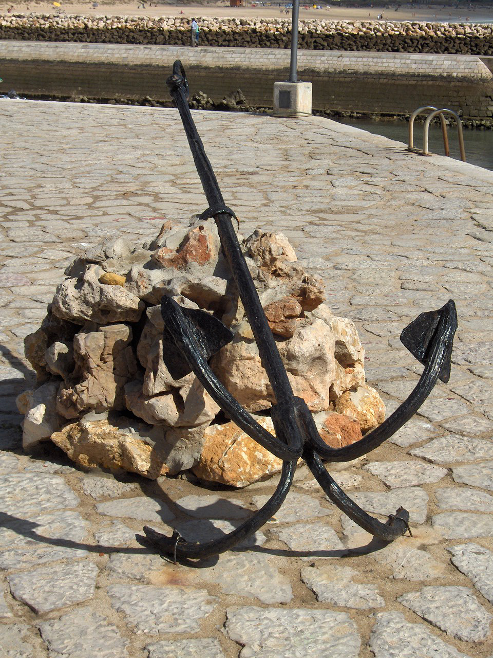 Ancient stockless dreg anchor; Lagos, Portugal